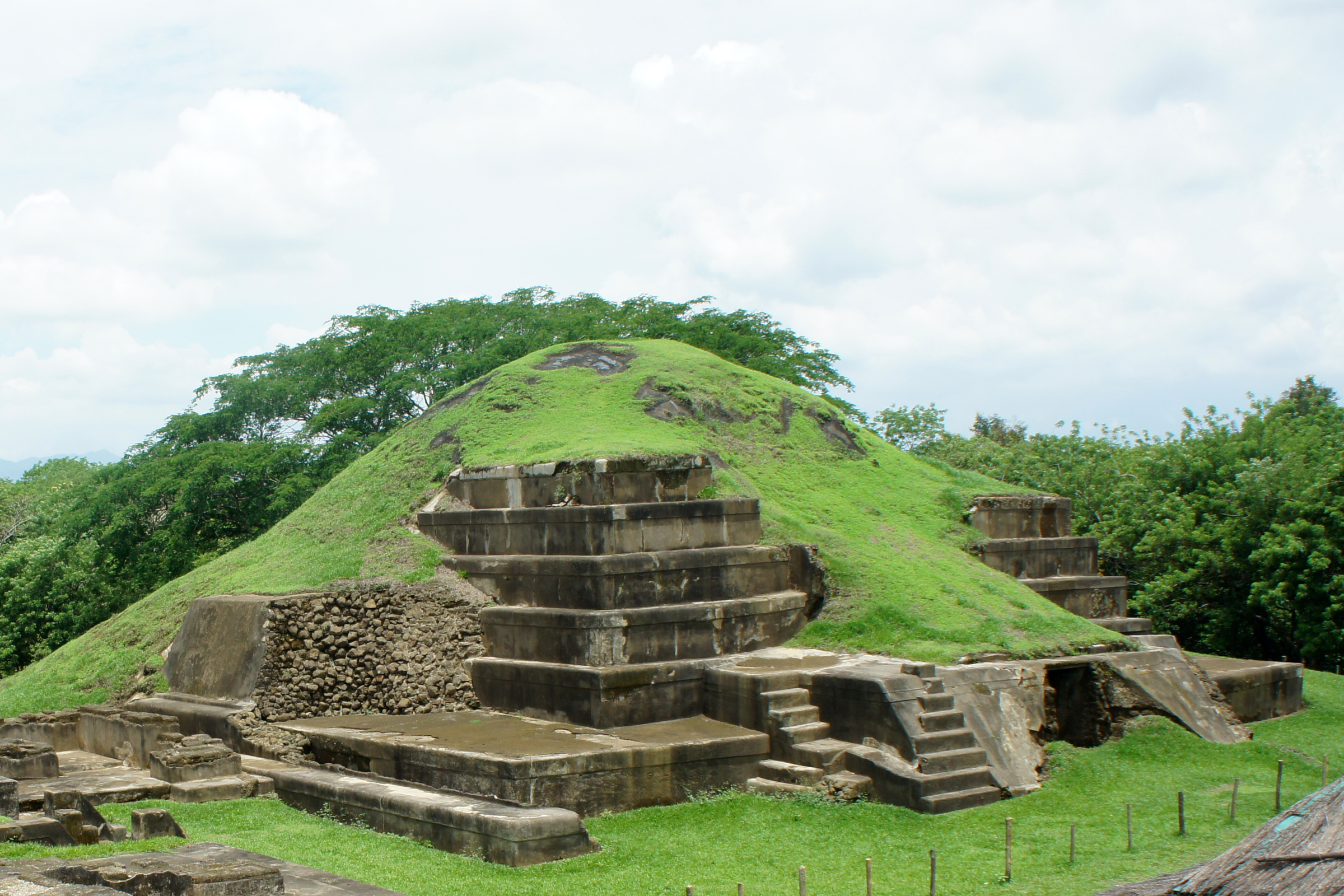 Mayan pyramid at La Acropolis, San Andres, El Salvador (structure 1)